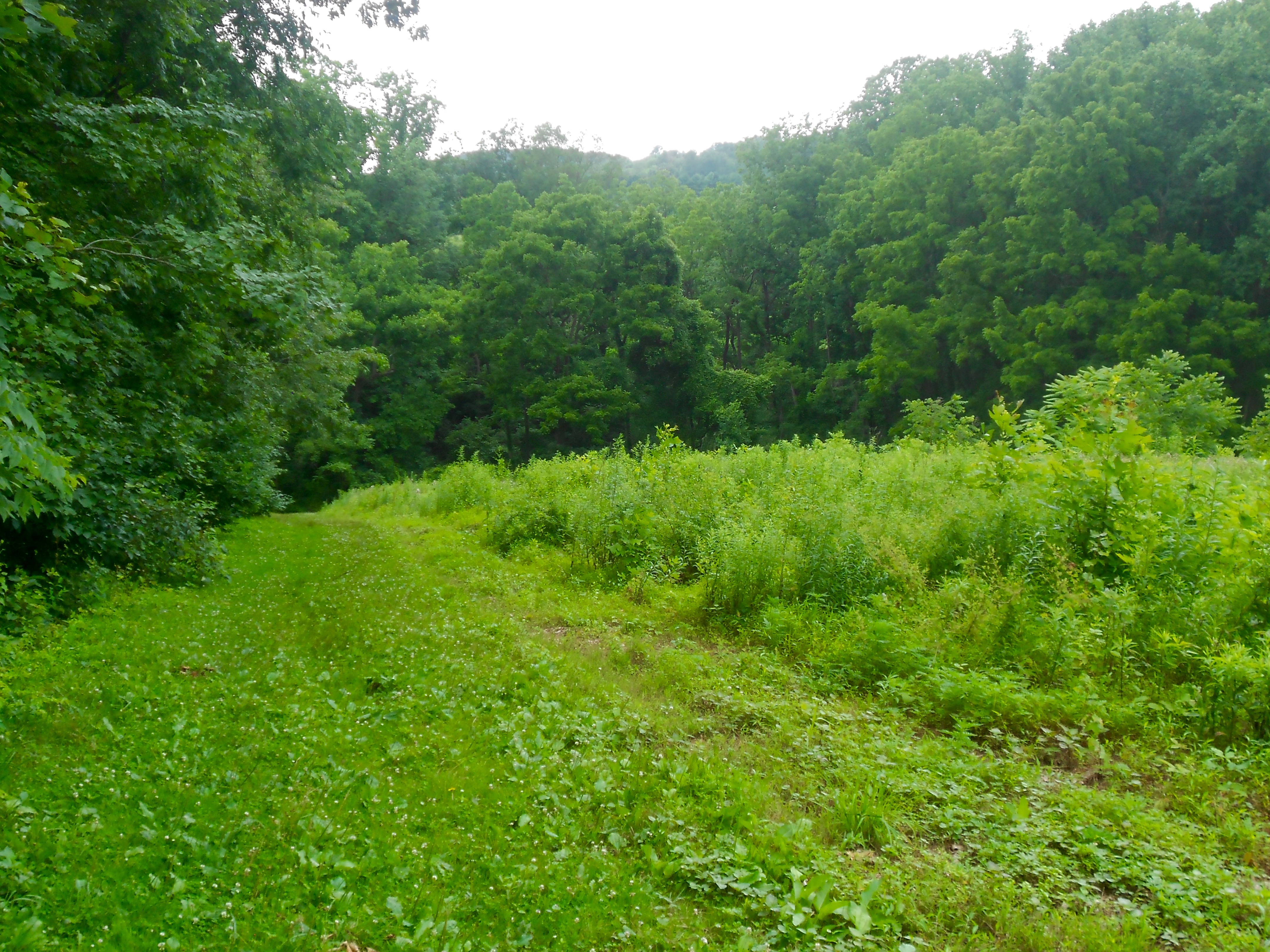 Raab County Park in York County, Pennsylvania. It is essential the same as the York Iron Company Mine (Historic District) on the National Register of Historic Places. The park includes a 3-4 mile trail which goes by several old mining pits (off-trail and somewhat dangerous). York Iron Company Mine listed on the NRHP on March 15, 1985 (#85000580) North of Green Valley Road, south of Spring Grove 39°50′29″N 76°48′35″W North Codorus Township Sorry - it was raining and threatening thunderstorms and I only went about 1 mile down the trail. Best to try photographing this site in the winter when you might be able to see the pits.